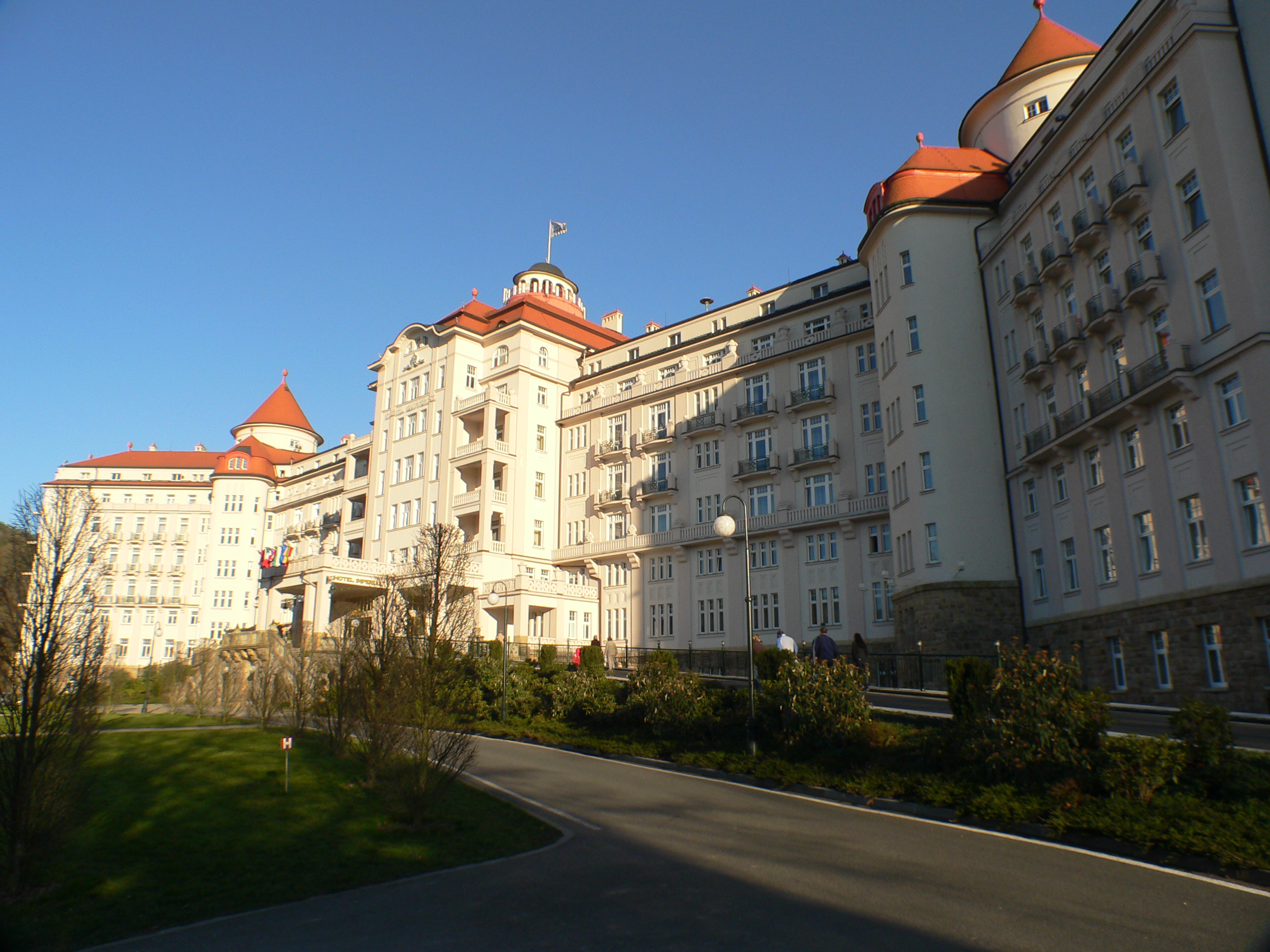 The Spa Hotel Imperial in Karlovy Vary